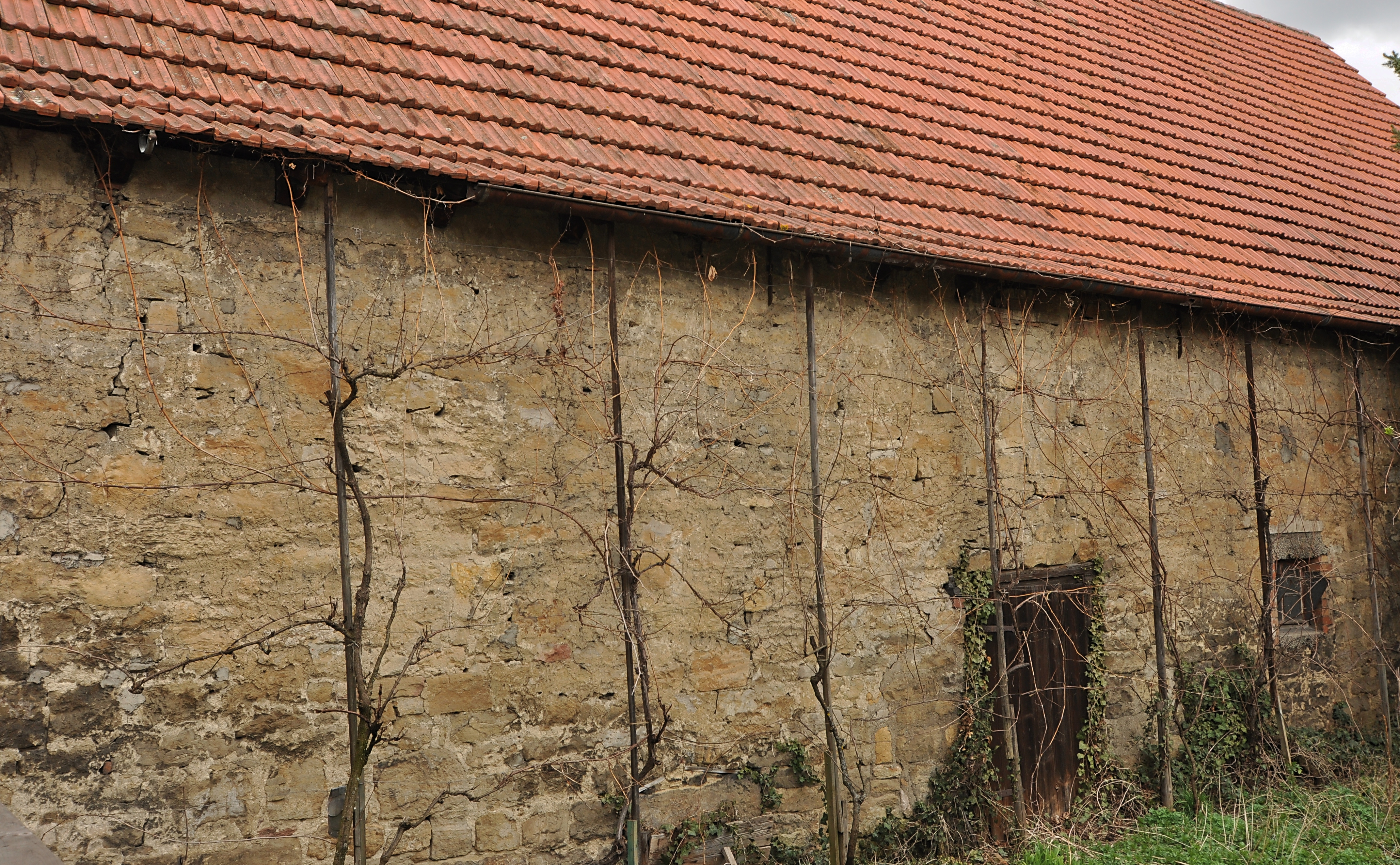 The old southern outskirts of the former village of Ludwigsburg-Eglosheim aare formed by a closed row of barns which are centuries old.